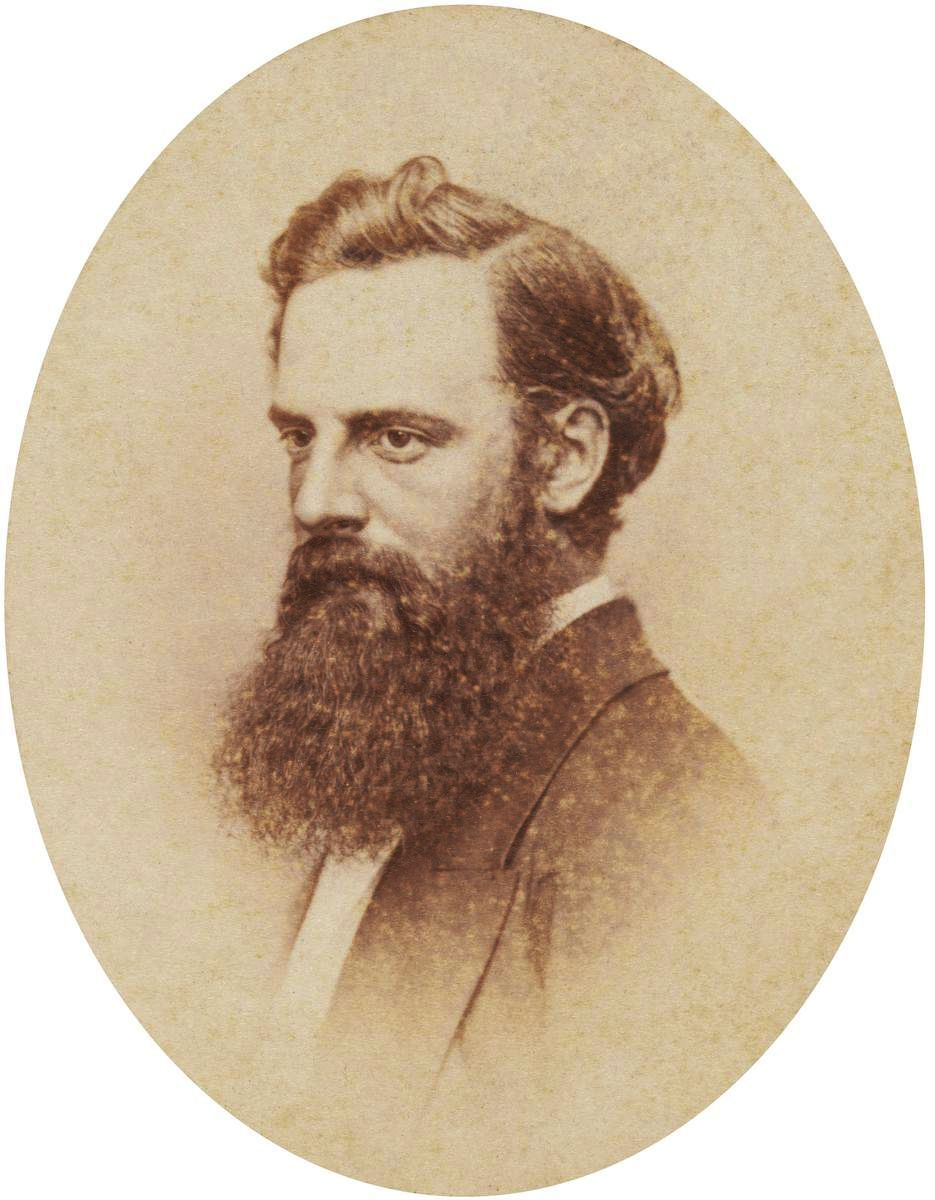 Nicholas Chevalier, carte de visite photograph